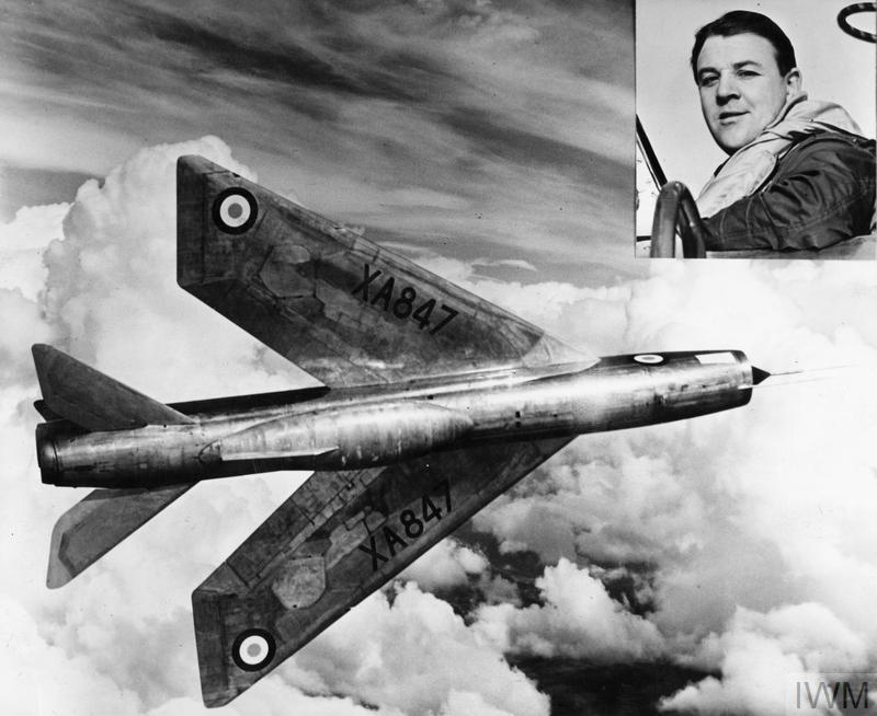 XA847 was one of three prototype P1.B aircraft built and on 25th November 1958 flew faster than Mach 2 (the first aircraft to do so). The pilot Roland Beaumont is seen inset.